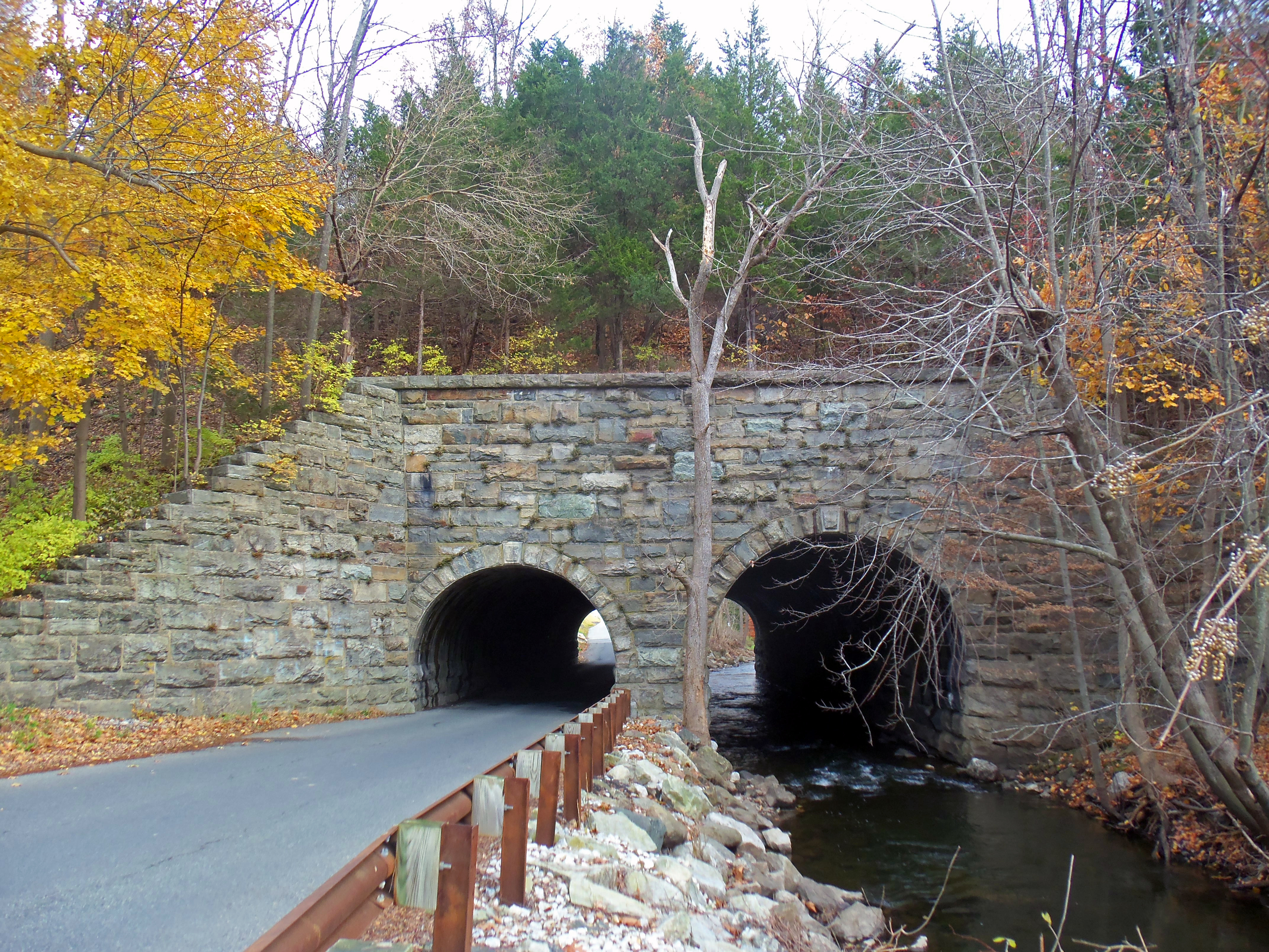 Backwards Tunnel, Ogdensburg, NJ, USA